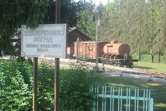 Zeleznicki muzej Pozega